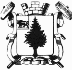 Coat of Arms of Pruzhany, Russian empire, 1861